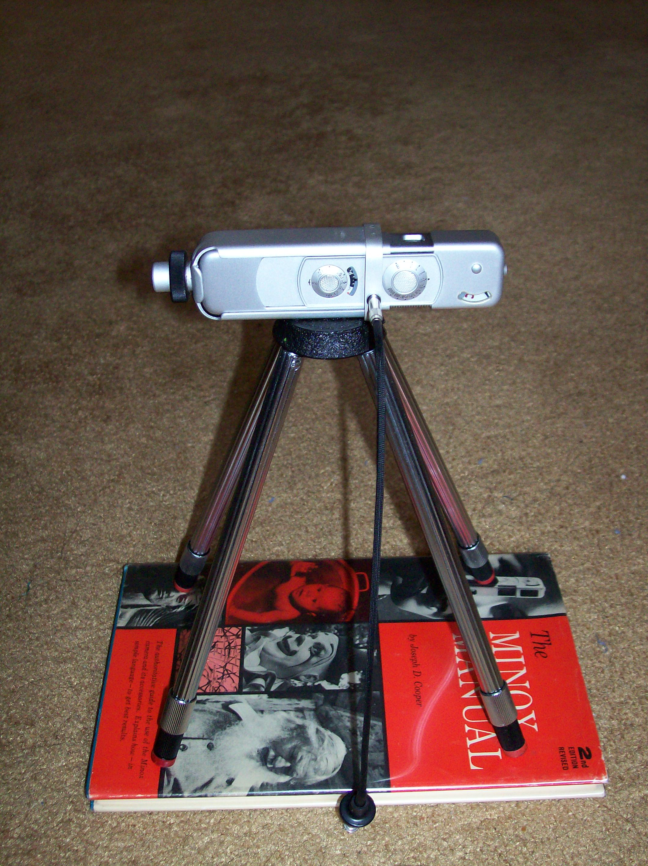 Minox copy stand